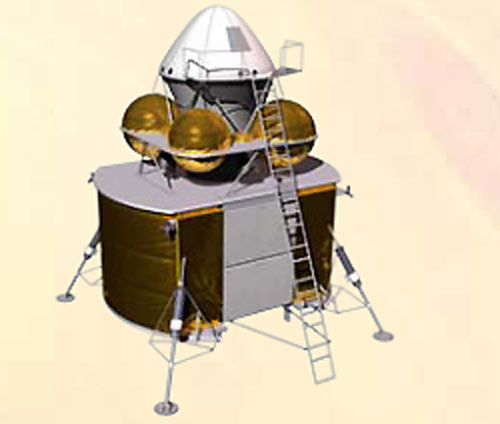 Drawing Descent_Ascent_vehicule. Manned mission to Mars (NASA : Human Exploration of Mars Design Reference Architecture 5.0 feb 2009)